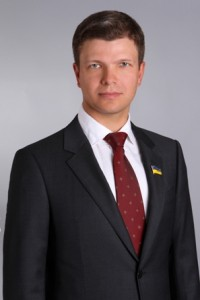 Iemets Leonid